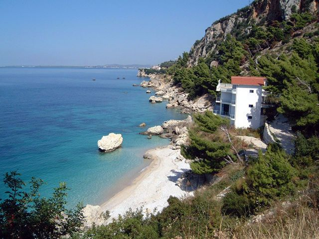 Vlora, Albania (image under GFDL from Marc Morell used with permission)